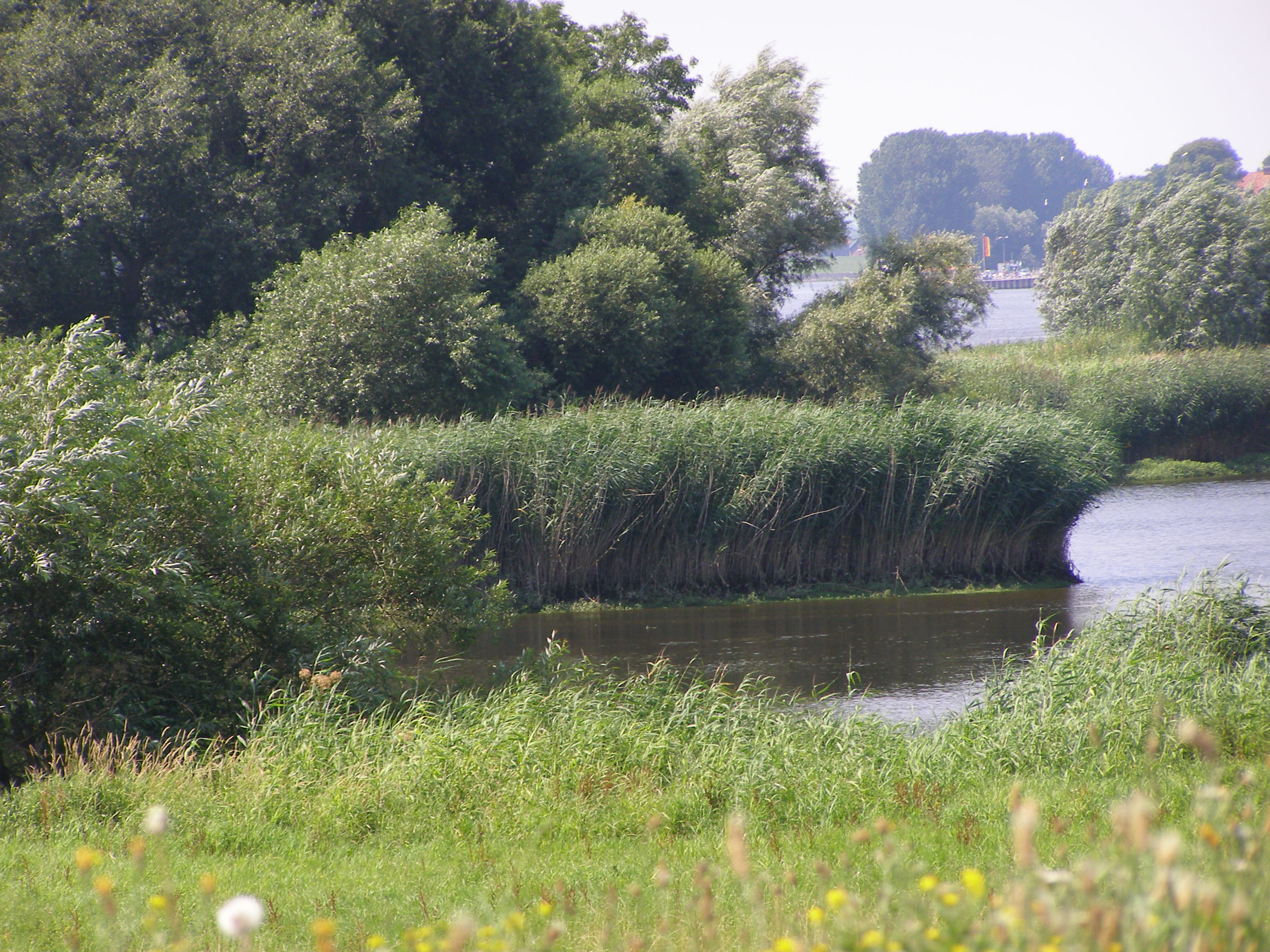 One of the creeks in the Zollenspieker nature reserve (the river Elbe in the background